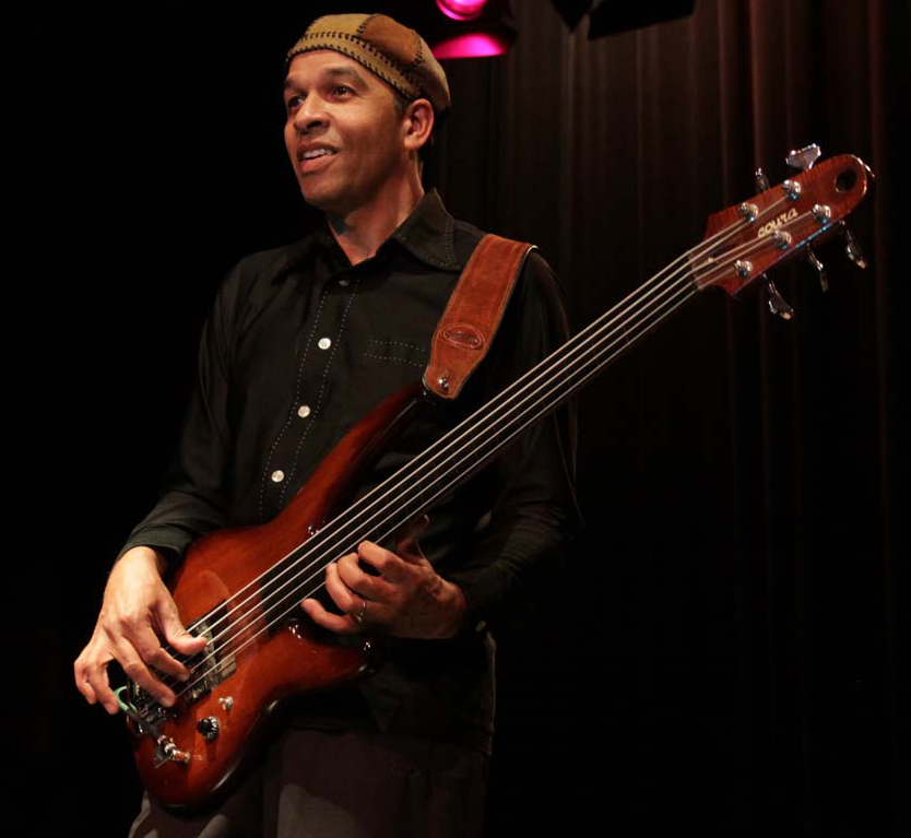 Kai Eckhardt in performance with the Kai Eckhardt Band on February 28, 2015.